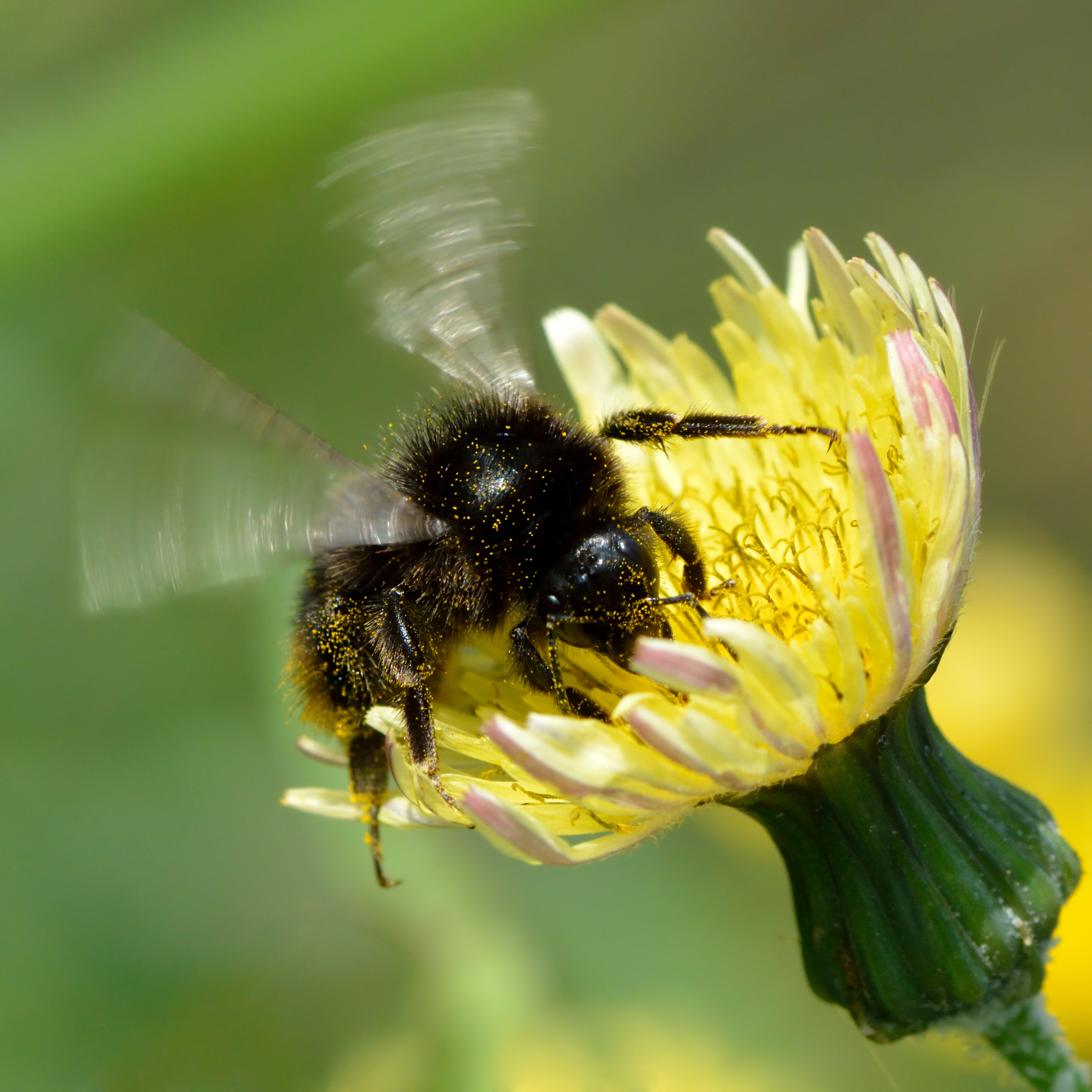 Red-tailed bumblebee (Bombus lapidarius) on the field milk thistle (Sonchus arvensis). Keila, Northwestern Estonia.